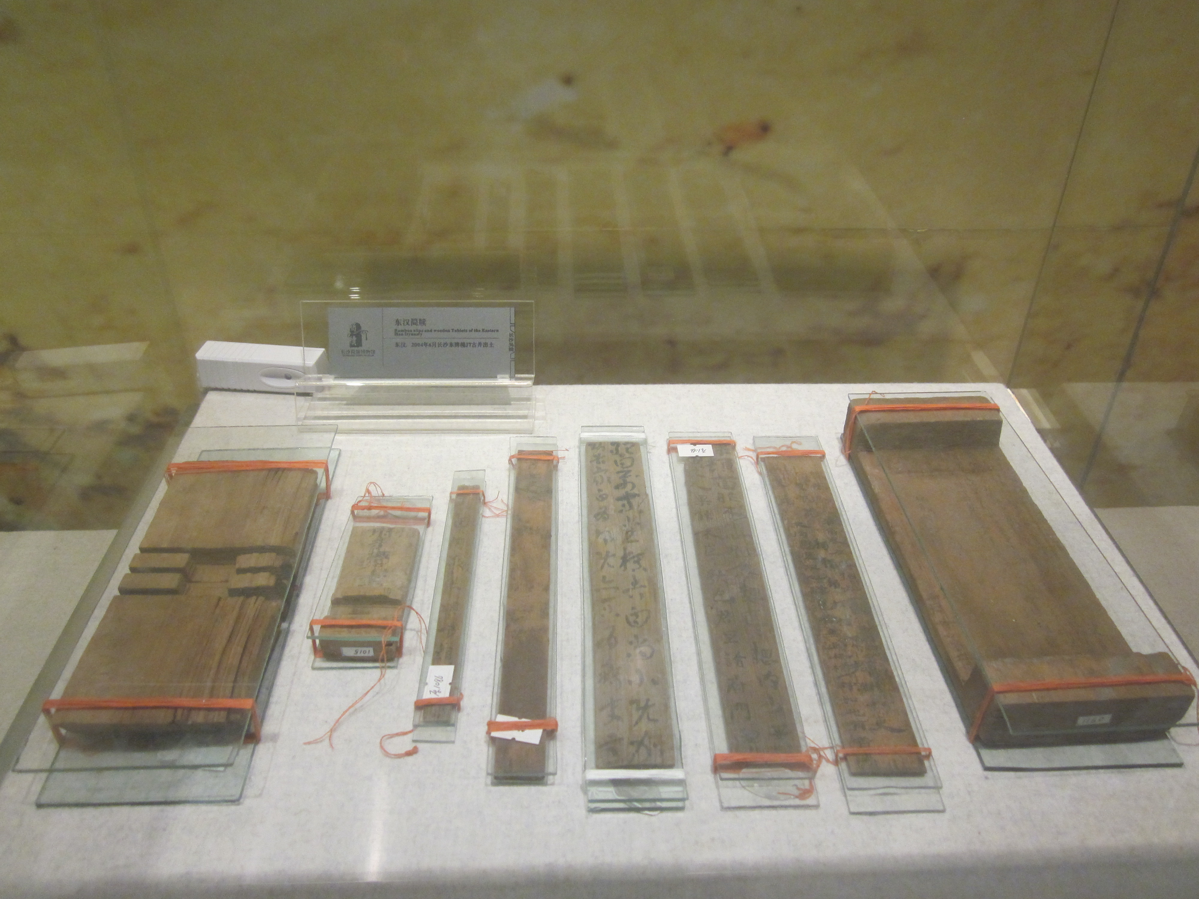 Bamboo slips of the Eastern Han Dynasty unearthed in June 2004 in Zoumalou, Changsha. Changsha Jiandu Museum.